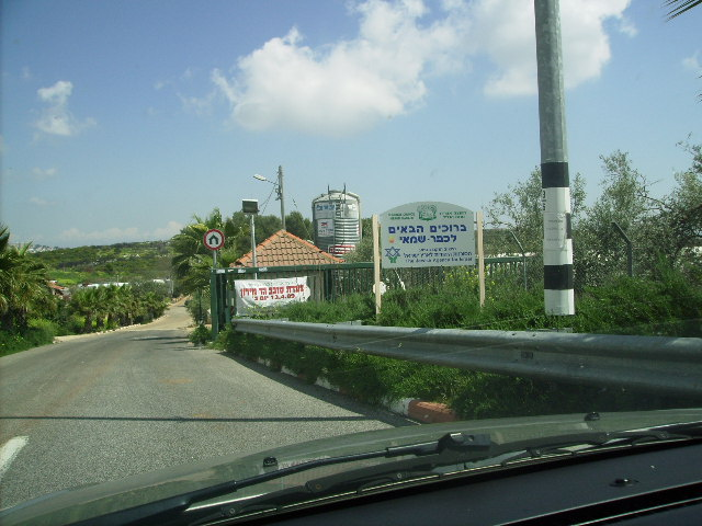 Entrance to Kfar Shamai